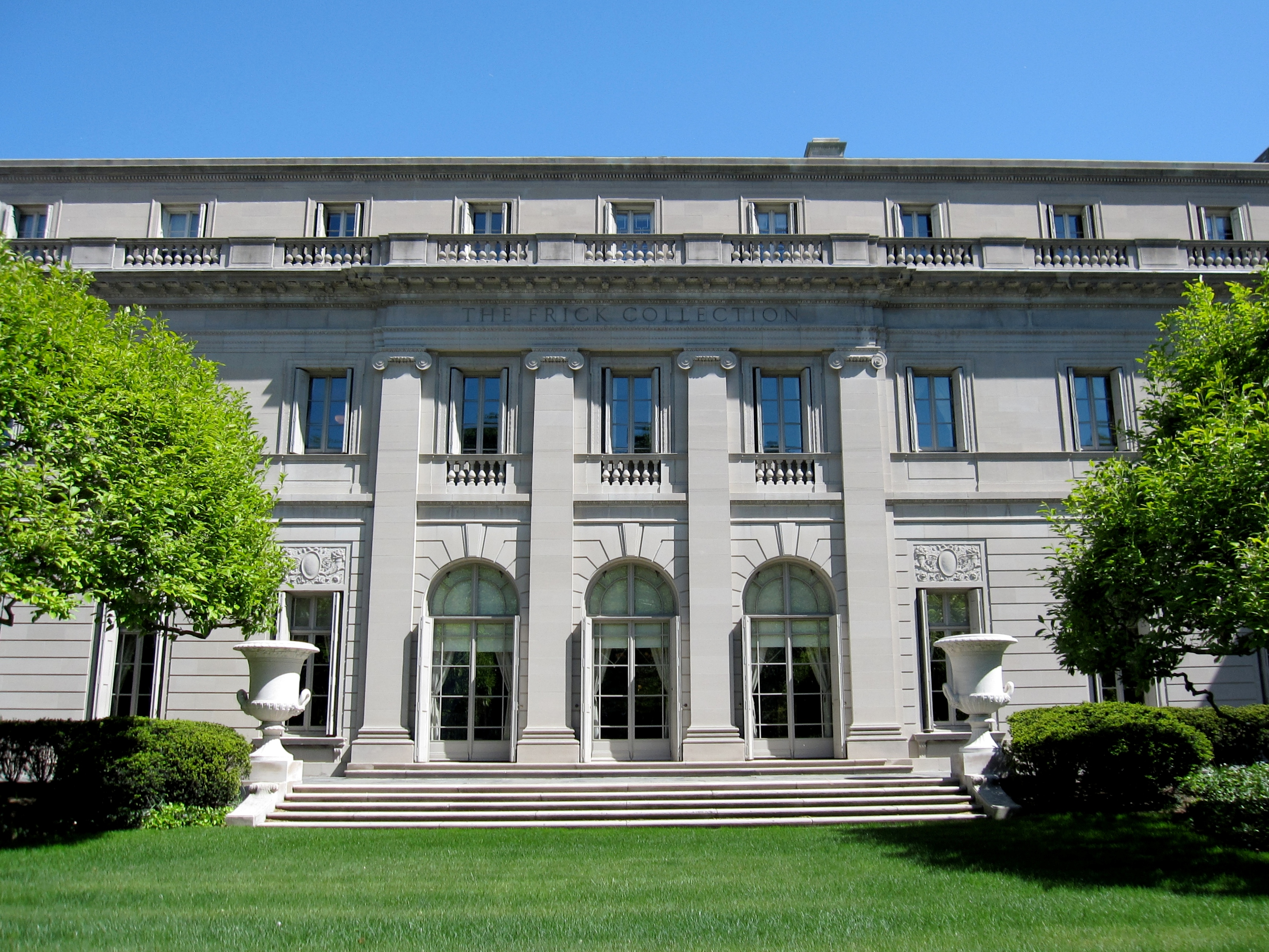 Henry C. Frick House on 5th Avenue in New York, today contains the Frick Collection.